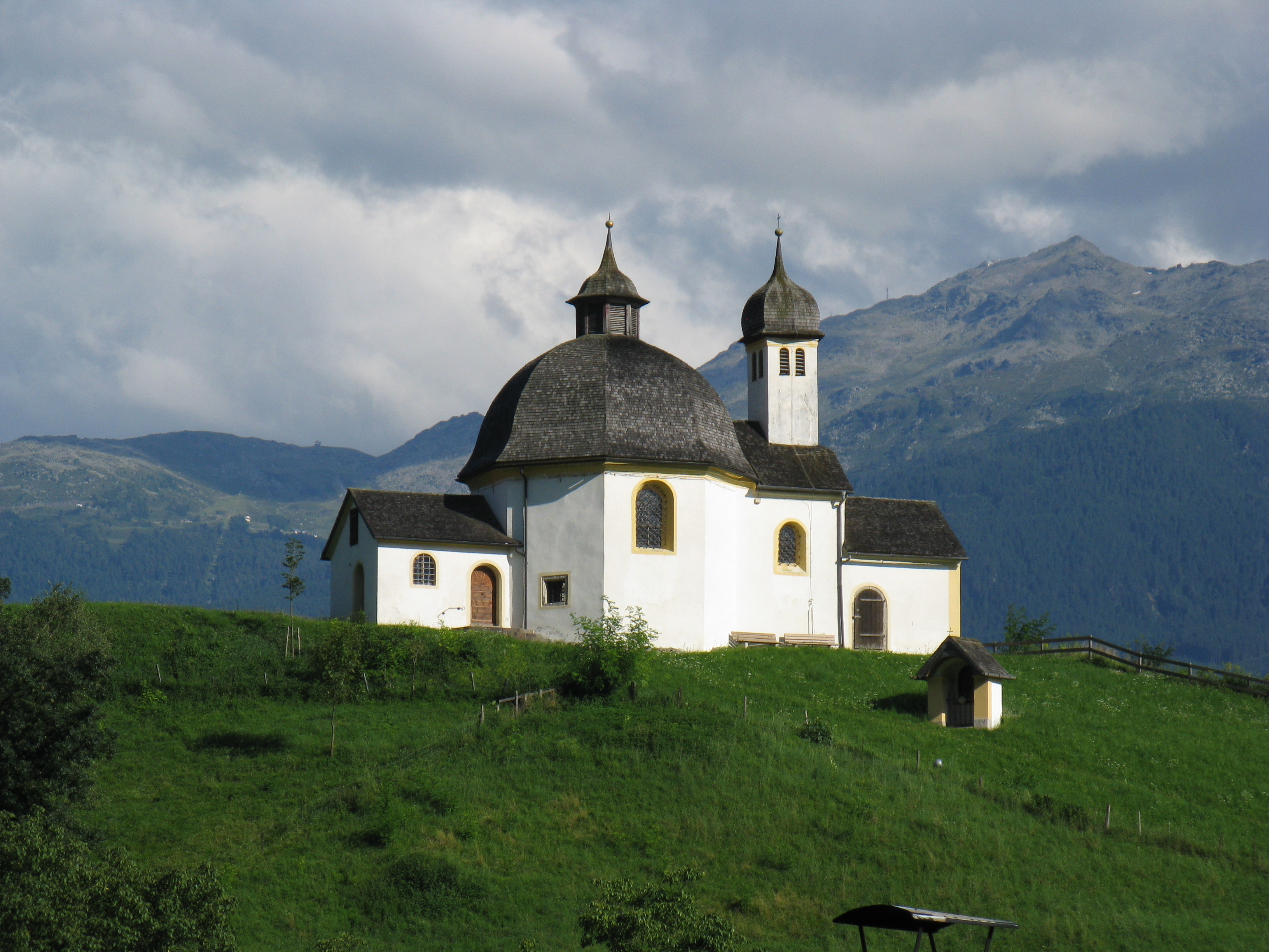 calvary chapel in Arzl quarter, Innsbruck, Austria. The Glungezer right in the background